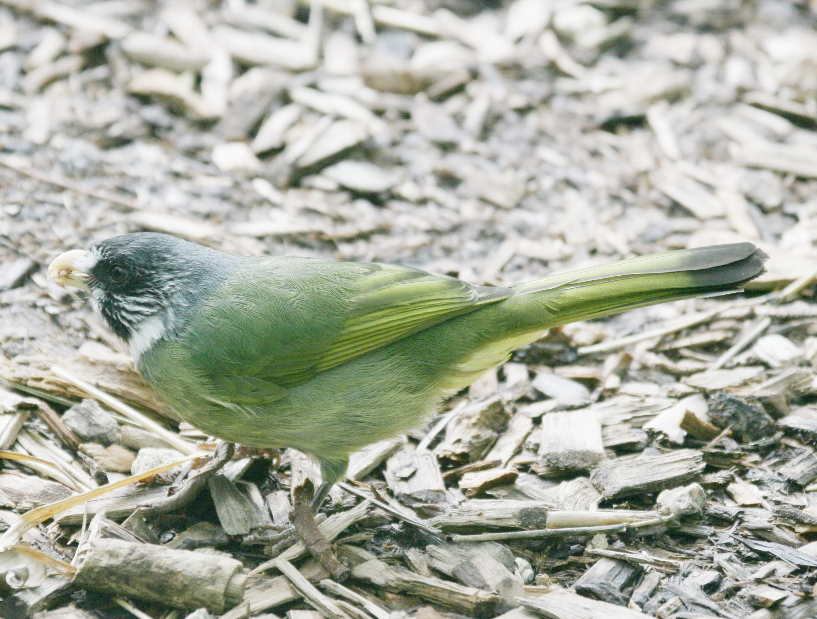 A Collared Finchbill at Miami Metrozoo, Florida, USA.